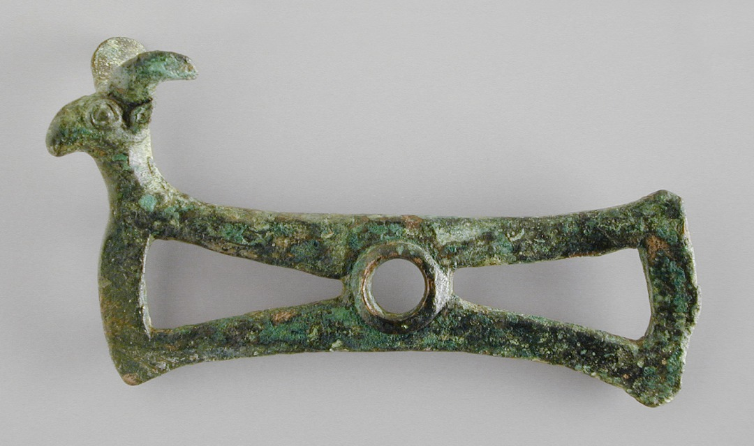 Tools and Equipment; horse trappings Bronze Length: 4 in. (10.16 cm) Gift of Carl Holmes (64.12.40) Art of the Ancient Near East